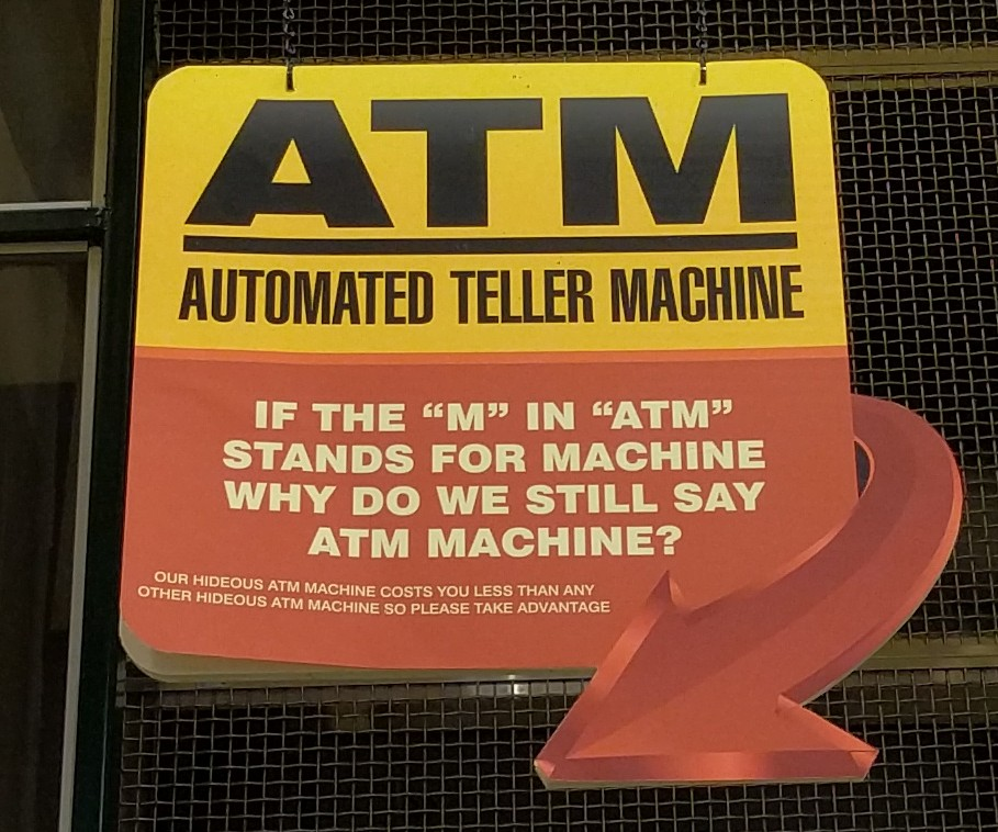 Sign joking about the redundant phrase “ATM Machine”, an instance of RAS Syndrome.